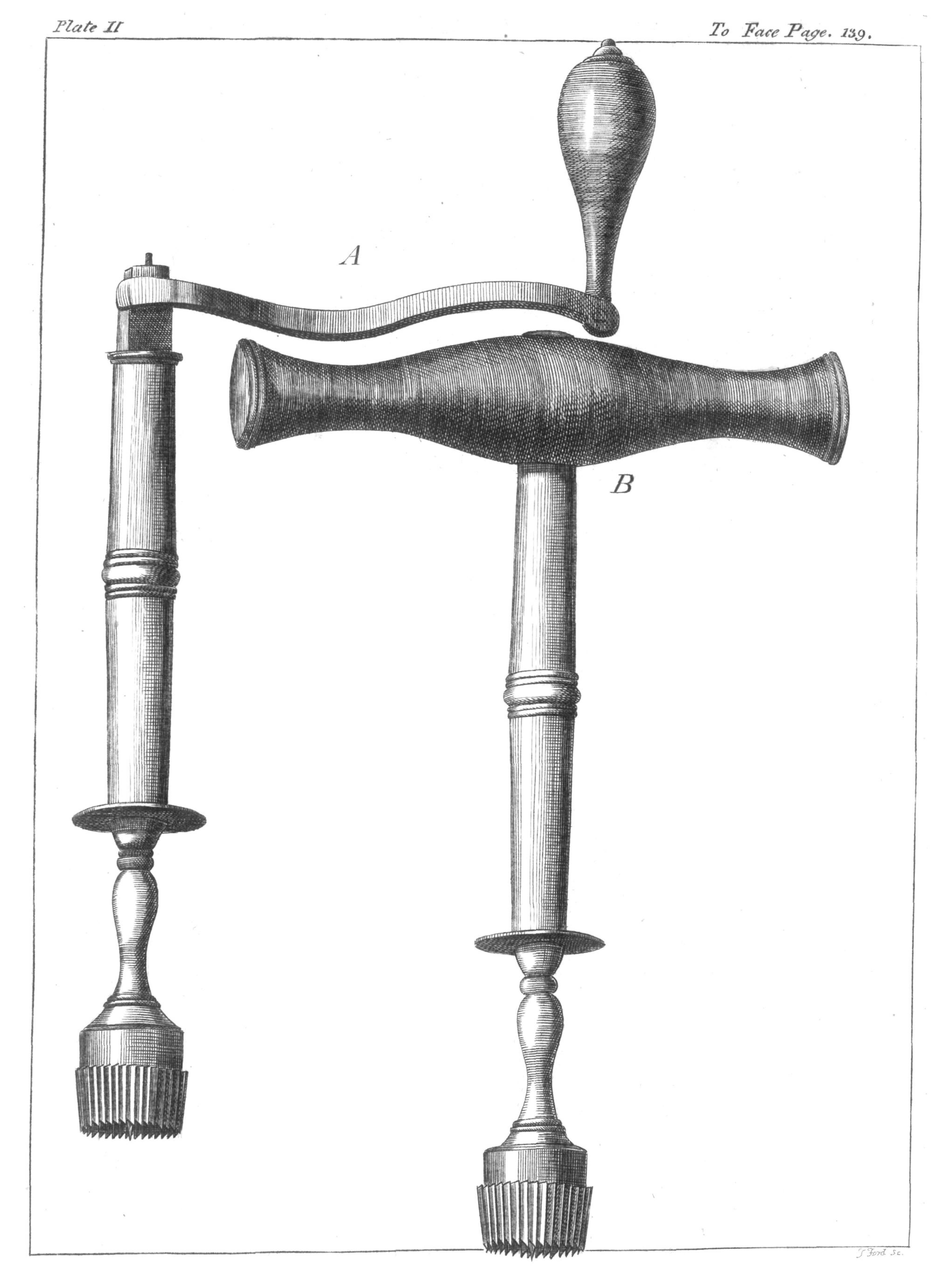 "Description of an Instrument for Performing the Operation of Trepanning the Skull, with More Ease, Safety and Expedition, than Those Now in General Use", Transactions of the Royal Irish Academy, Vol. 4 (1790-1792), pp. 119-139.